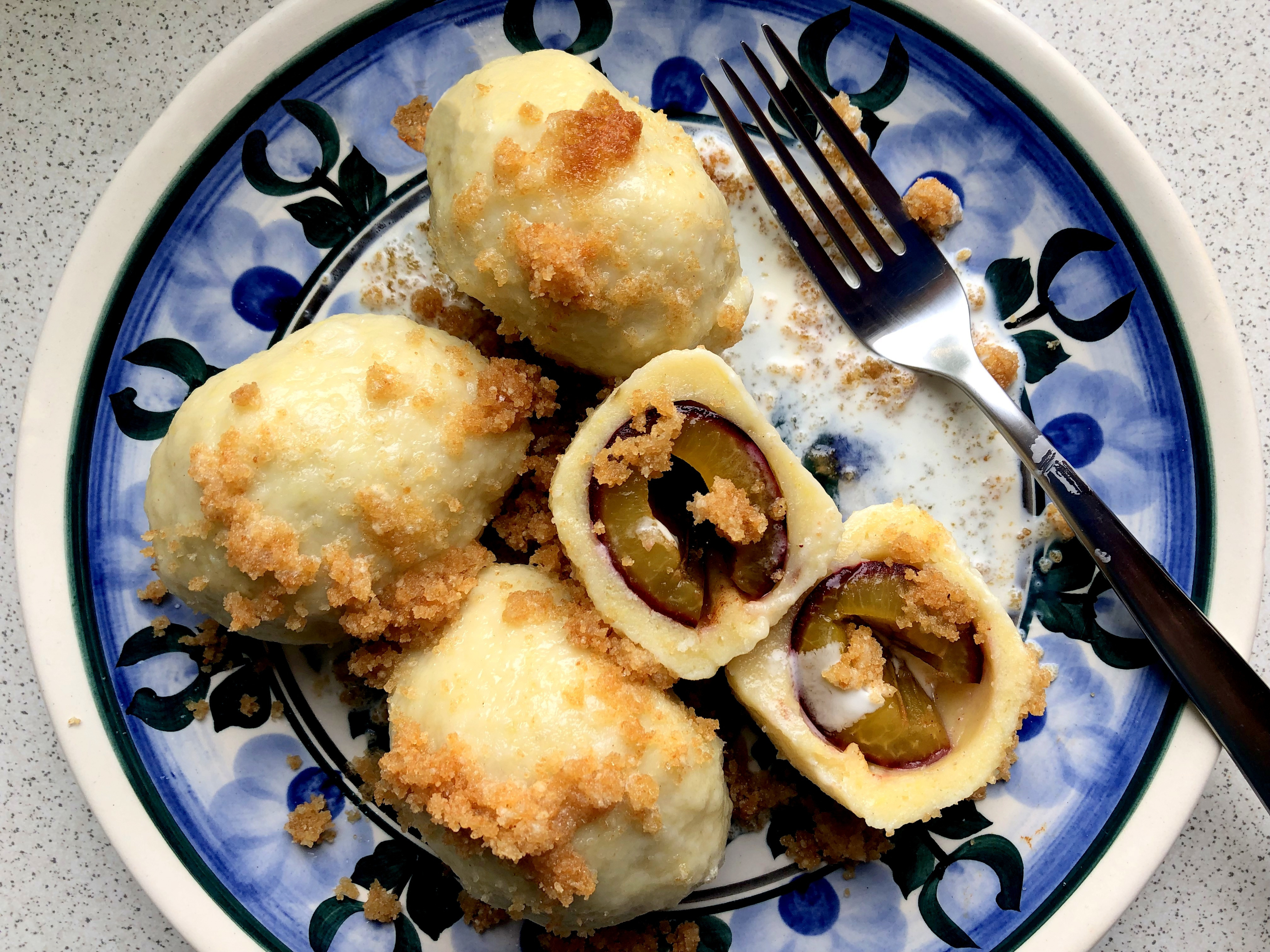 Polish plum dumplings served on polish pottery in Warsaw July 2019 - Traditional Polish cuisine. Polish seasonal cooking.